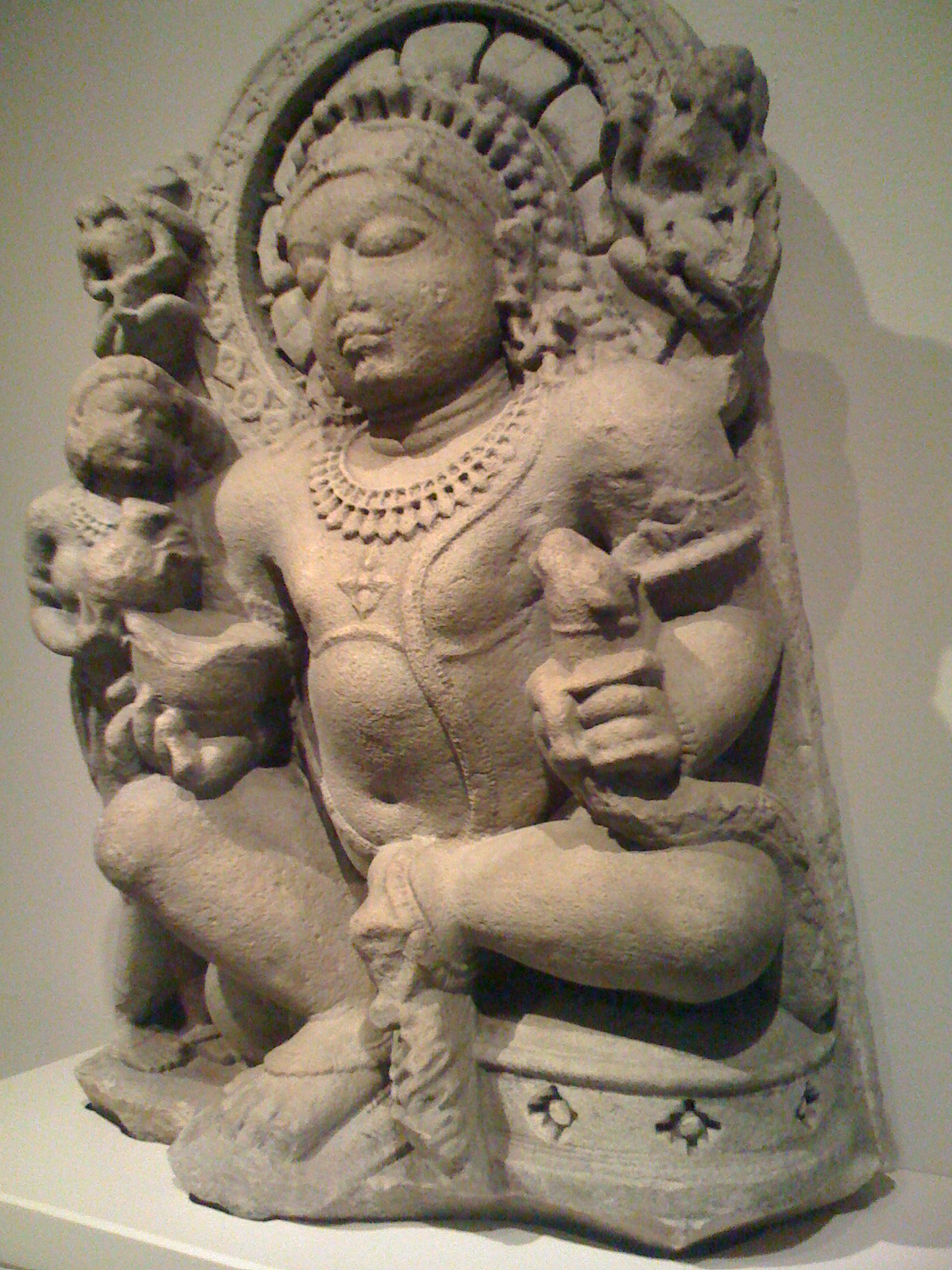 Kubera. Northern India. 10th century. Sandstone. San Antonio Museum of Art